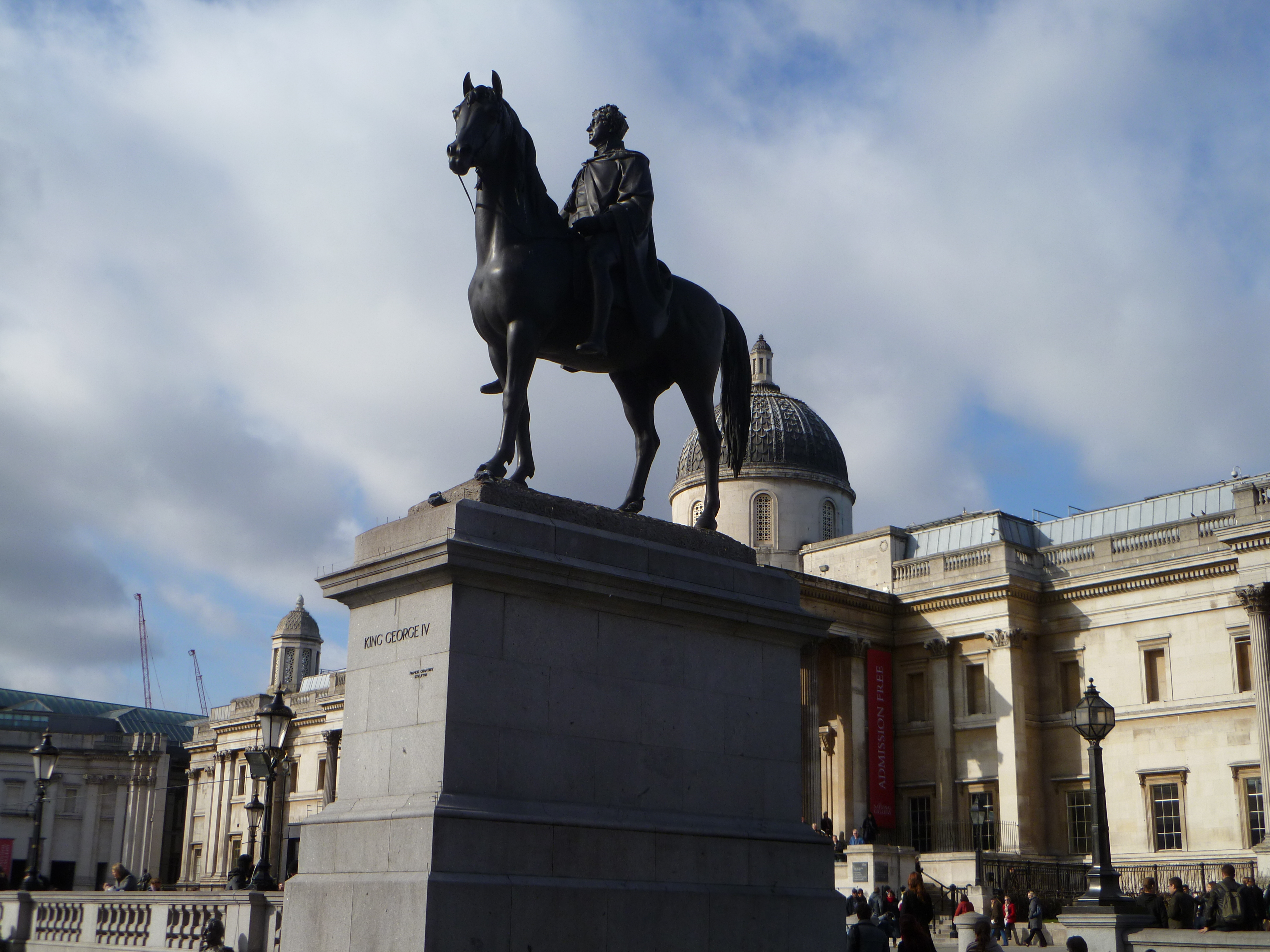 Monument of King George IV at Trafalgar Square in London